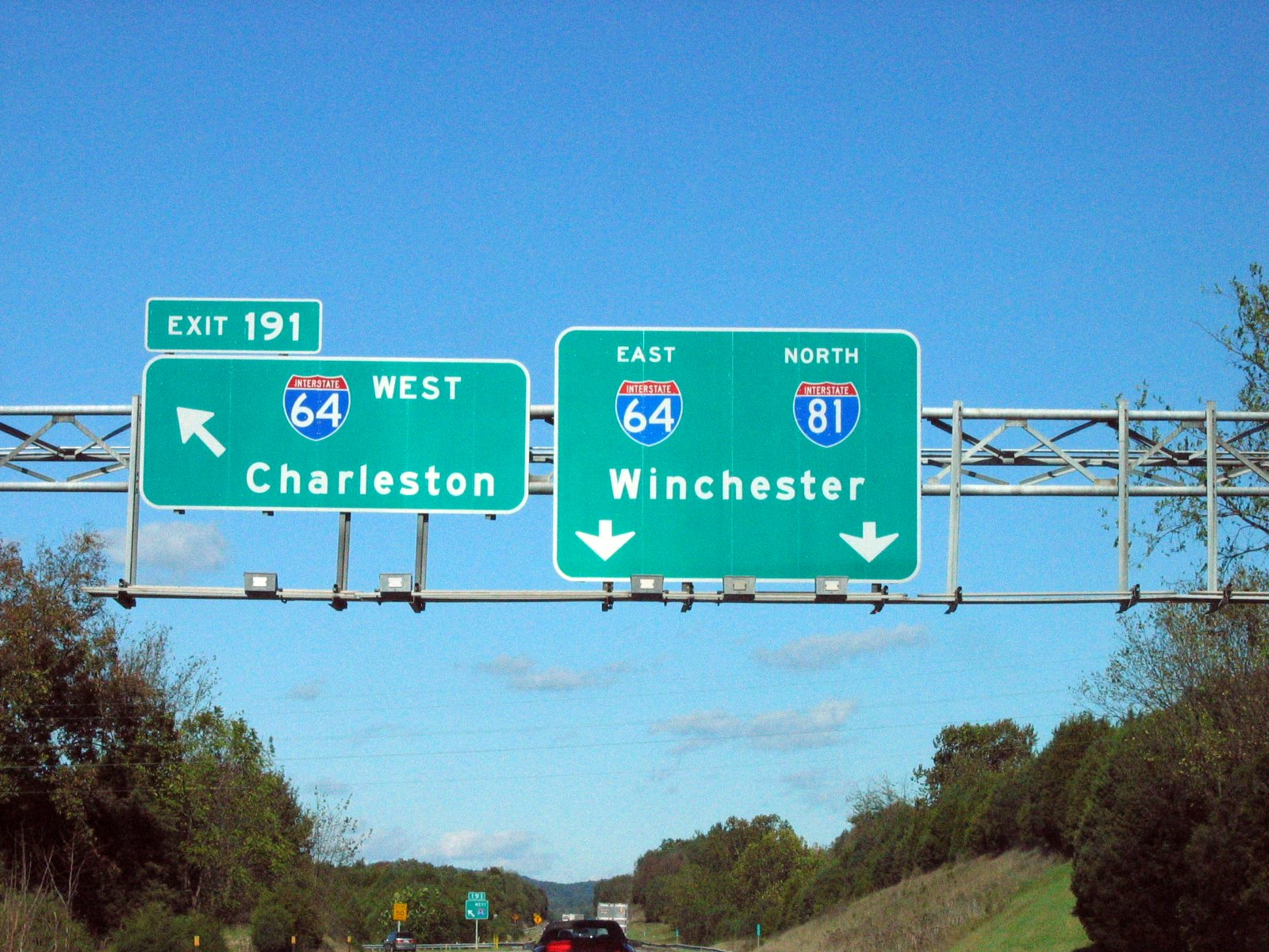 I took this picture and grant use as long as I am credited as Bobby Hidy.